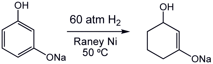 partial hydrogenation of resorcinolNa salt